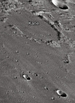 Kane lunar crater as seen from Earth with satellite craters labeled